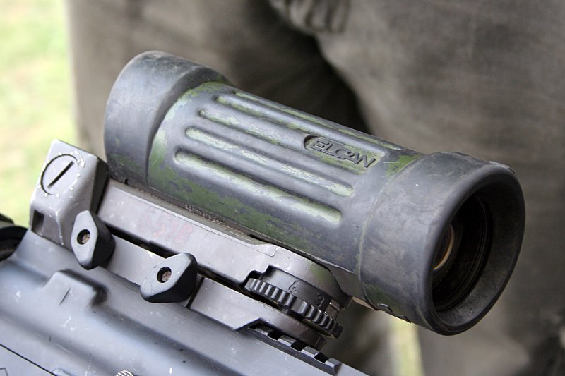 ELCAN C79 3.4x28 sight. C79 3.4x28 sight sdjustment controls.